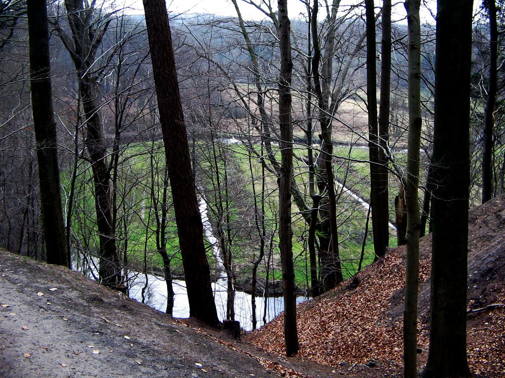 Boehme valley near Bad Fallingbostel, southwestern Lueneburg Heath